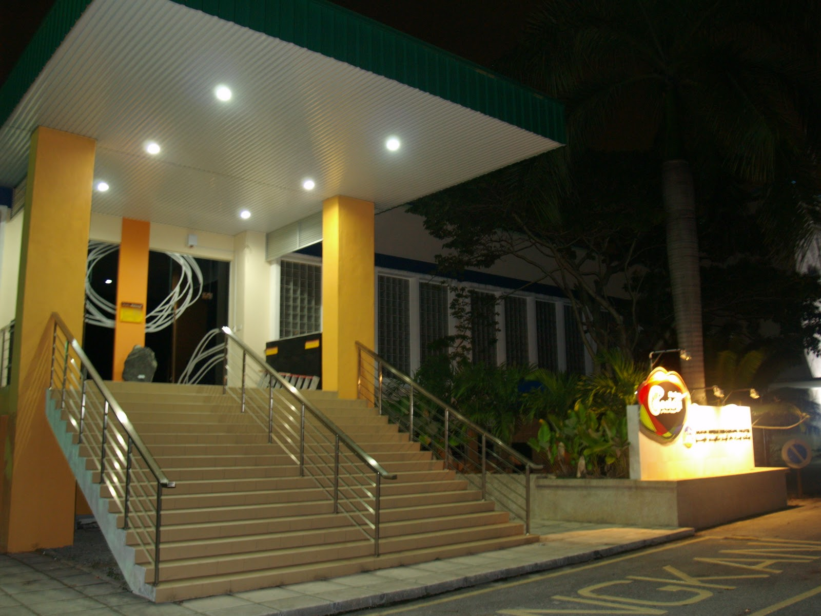 Front Night View of JMG Geological Museum Ipoh